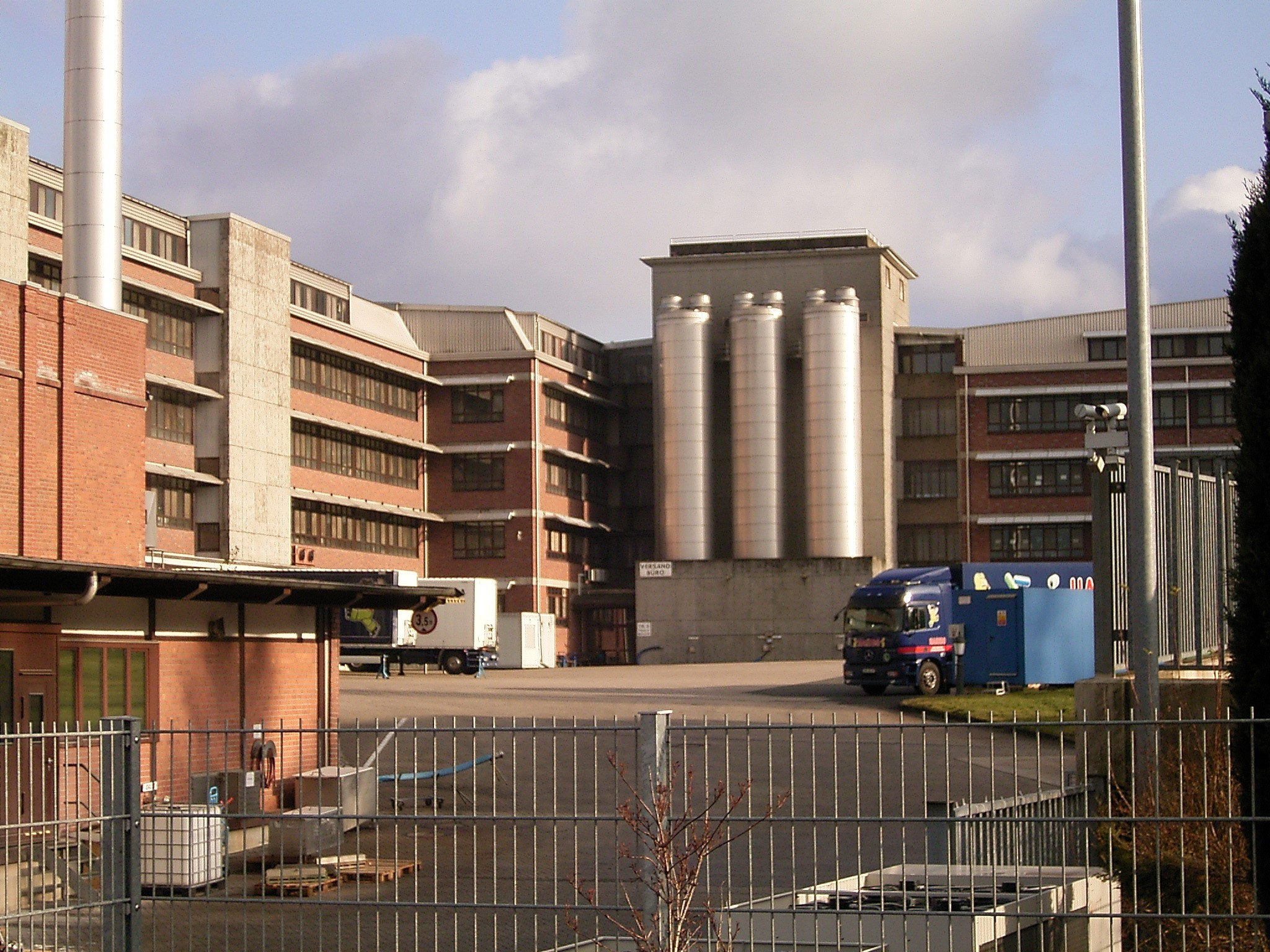 Haribo in Solingen